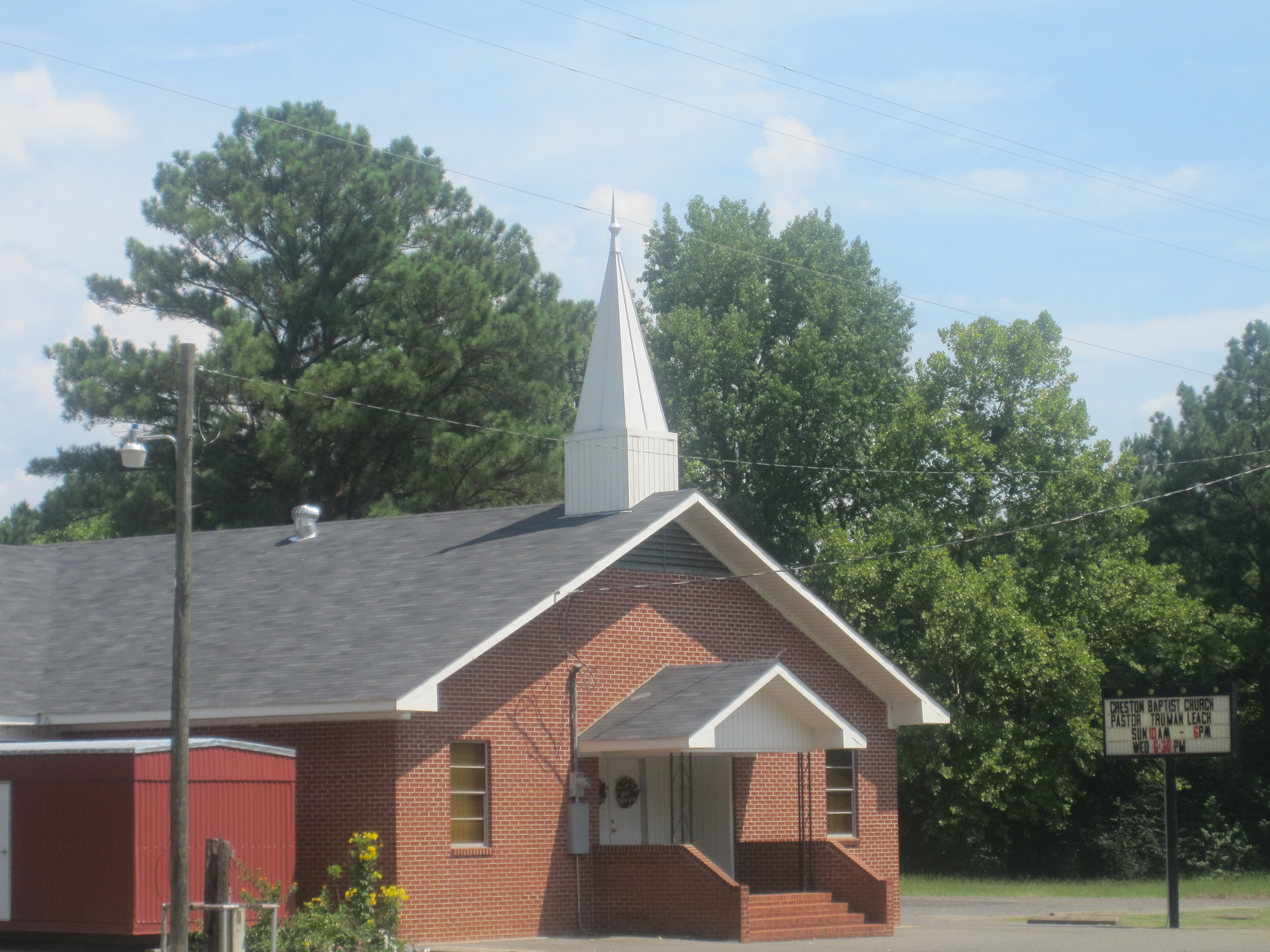 Creston Baptist Church near Campti, LA